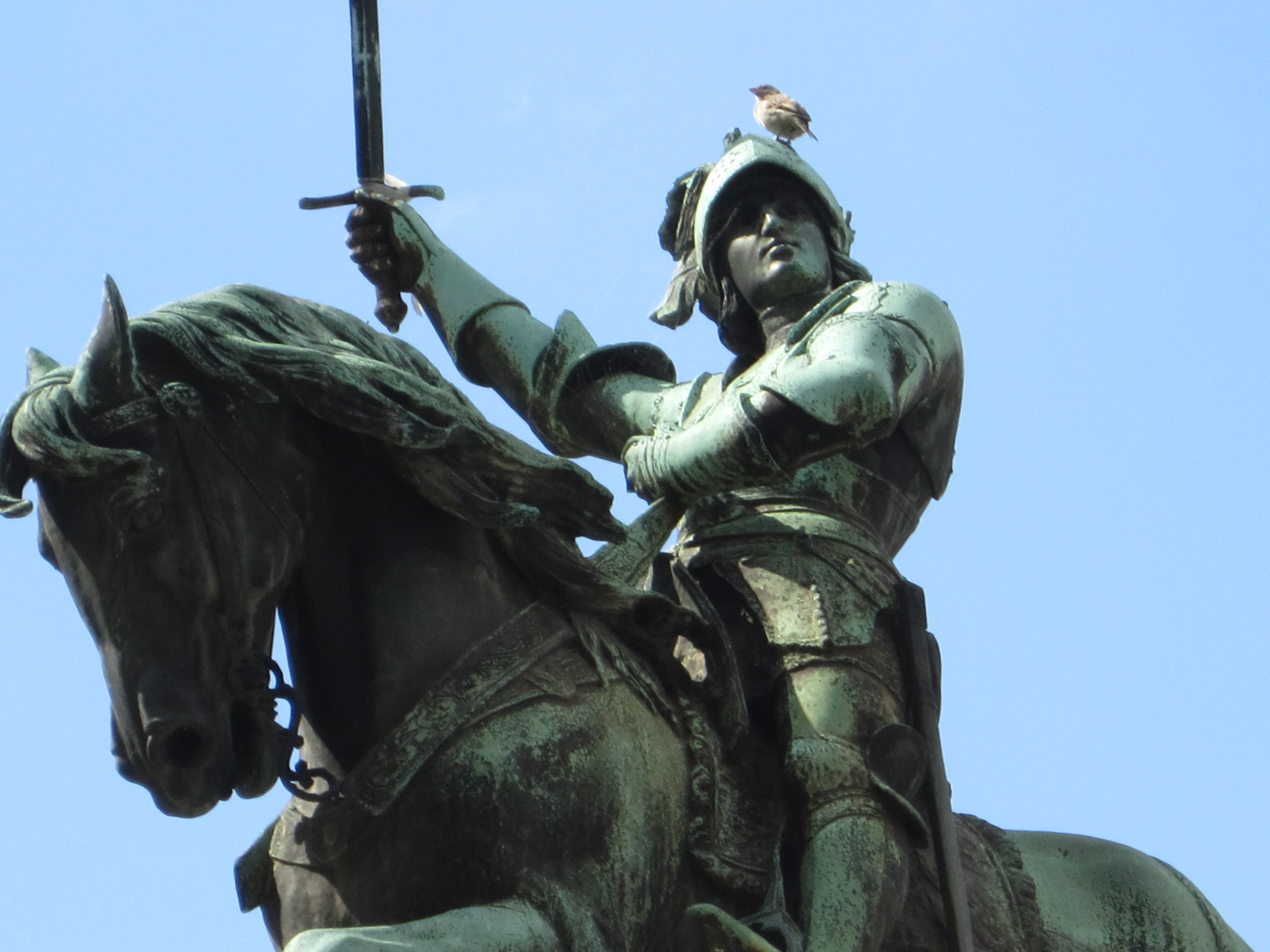 Saint Epvre Square - Nancy - FRANCE